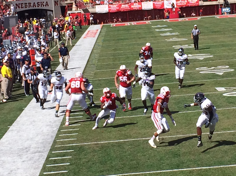 Ameer Abdullah running north to south in Memorial Stadium during the Nebraska vs. Florida Atlantic college football game on August 30, 2014